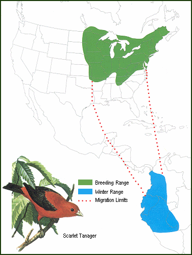 Migration route of the Scarlet Tanager (Piranga olivacea)